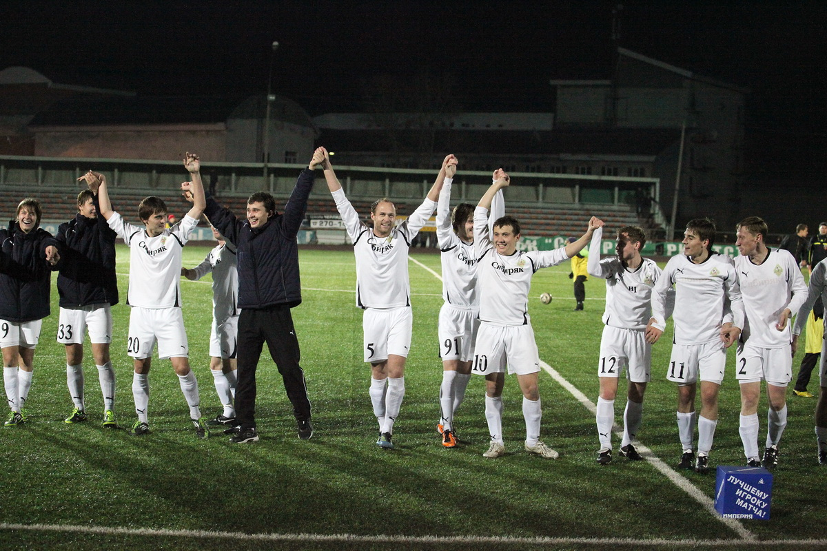 Fc Sibiryak 2011